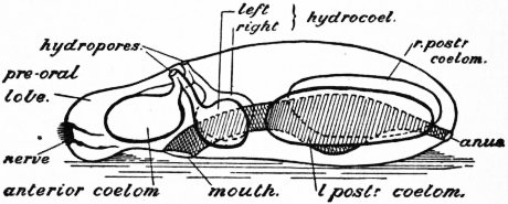 Diagrammatic reconstruction of Dipleurula. The creature is represented crawling on the sea-floor, but it may equally well have been a floating animal. The ciliated bands are not drawn.